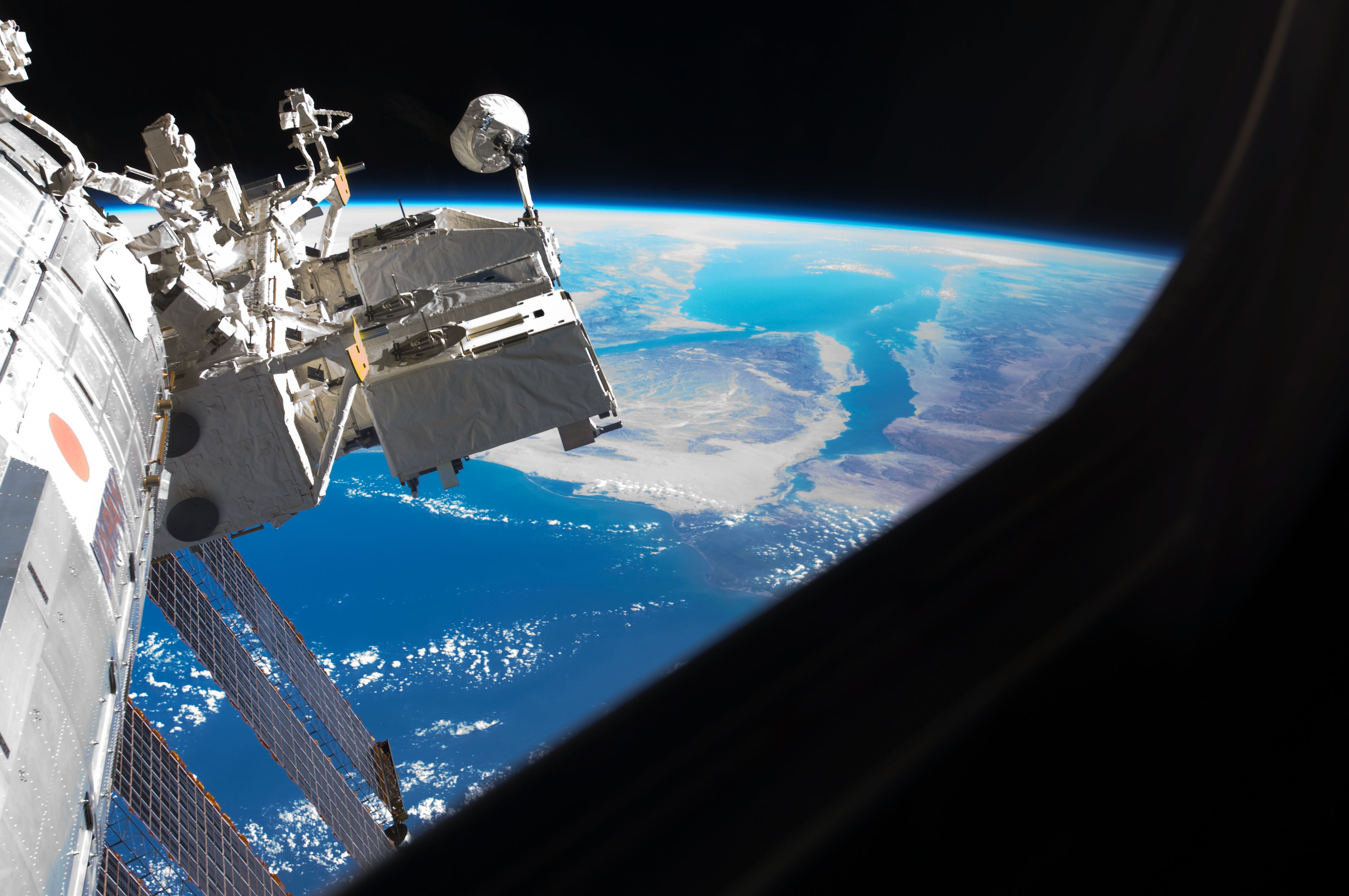 A portion of the Kibo laboratory of the International Space Station, backdropped by the triangular Sinai Peninsula, is photographed by an STS-129 crew member while Space Shuttle Atlantis remains docked with the station.